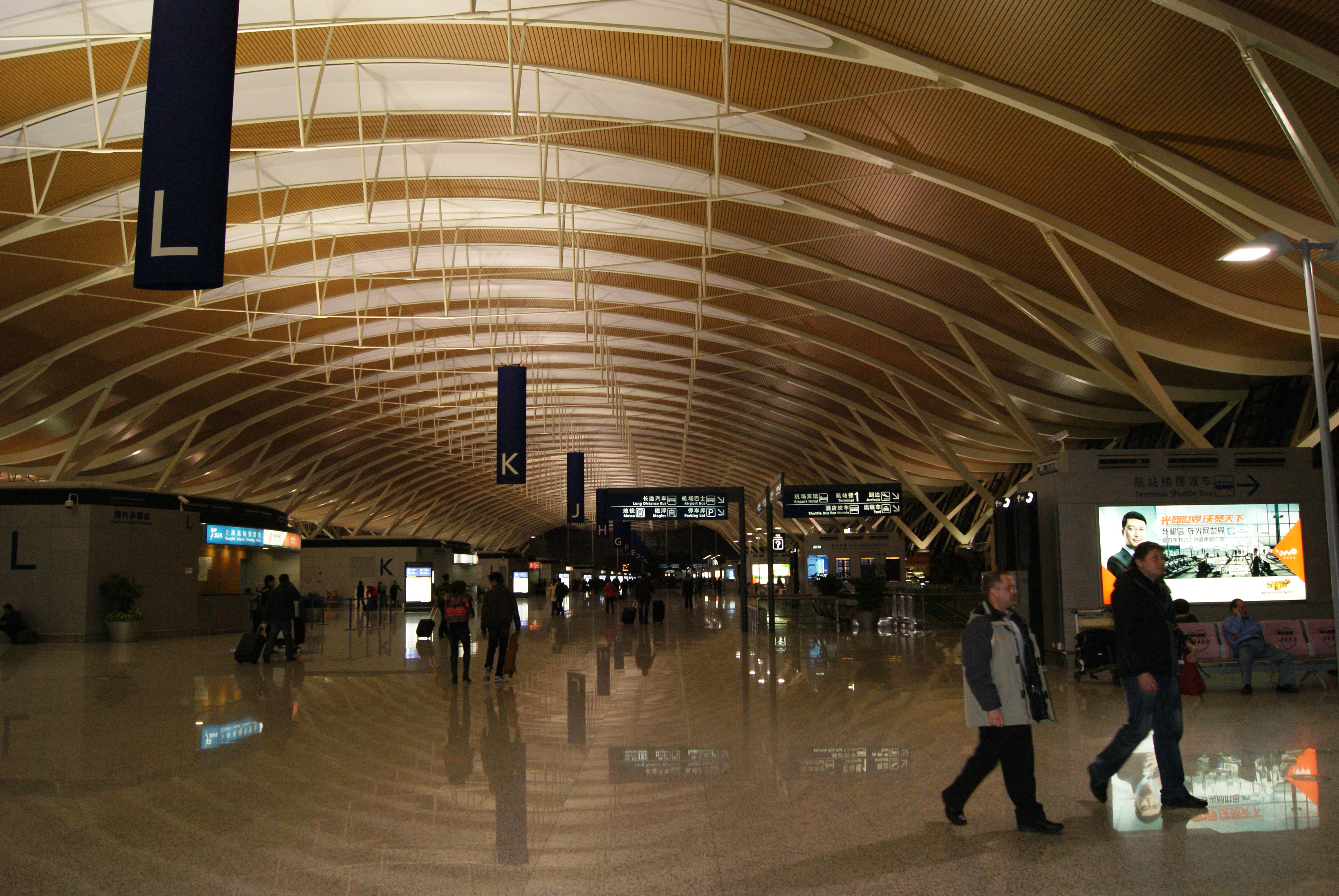 Pudong Airport section 2.Shanghai